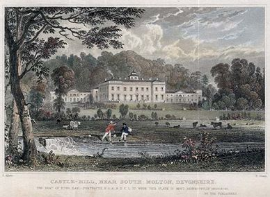 "Castle-Hill near South Molton, Devonshire, the seat of Hugh Earl Fortescue to whom this plate is most respectfully inscribed by the proprietors". Drawn by T. Allom, engraved by T.Dixon, published 1830